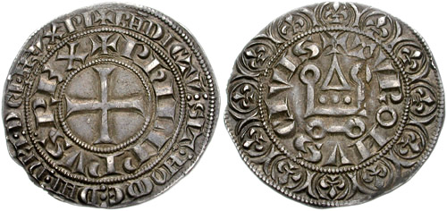 France, Royal. Philippe IV, le Bel (the Fair). 1285-1314. AR Gros Tournois à l'O Rond (24mm, 4.11 g, 7h). Struck 1295-1314. +BHDICTV SIT HOME DHI nRI DEI IhV .XPI/+PhILIPPVS REX, short cross pattée; 3-pellet stops +TVRONVS CIVIS, châtel tournois; border of twelve lis, pellets flanking first lis. Van Hengel 816.02; Duplessy 213B; Ciani 203b; DeMey, Gros 104; Roberts 2461.